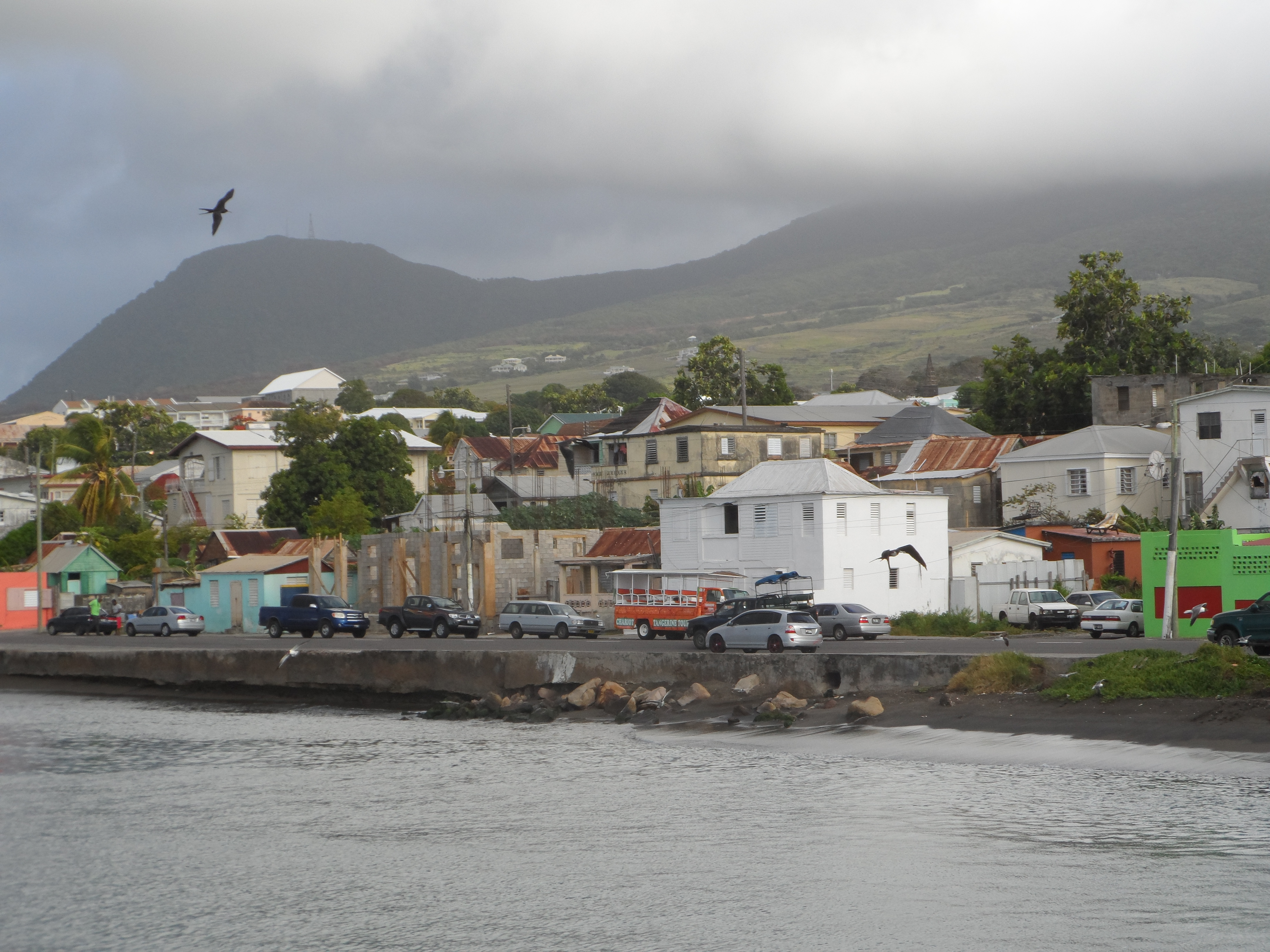 View from the water of Basseterre, Saint Kitts and Nevis